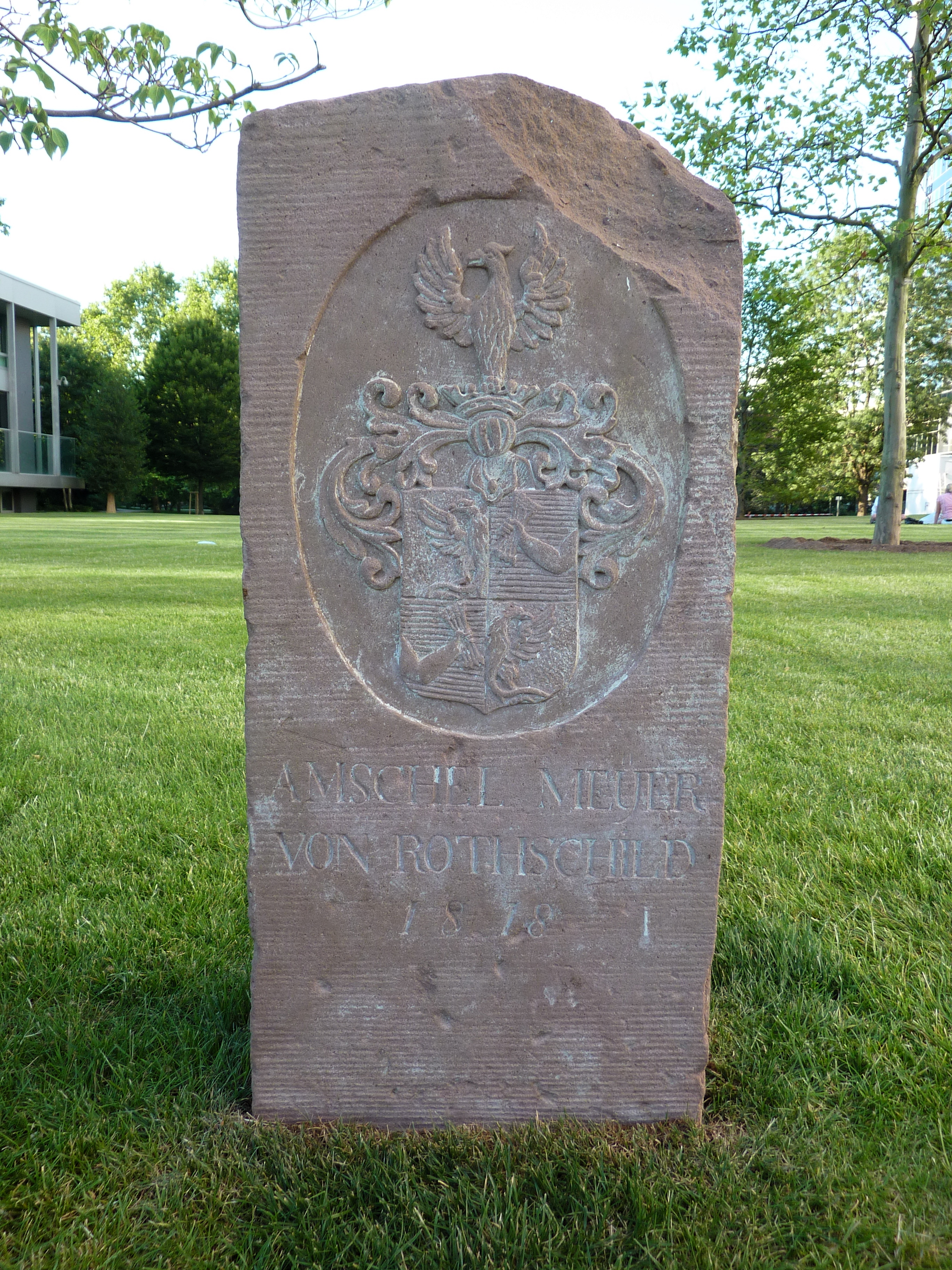 Frankfurt/M., Germany: Monument with coat of arms of the Rothschild dynasty. Located in Rothschild Park on Bockenheimer Landstraße in the Westend quarter. Inscription: Amschel Meyer Rothschild 1878